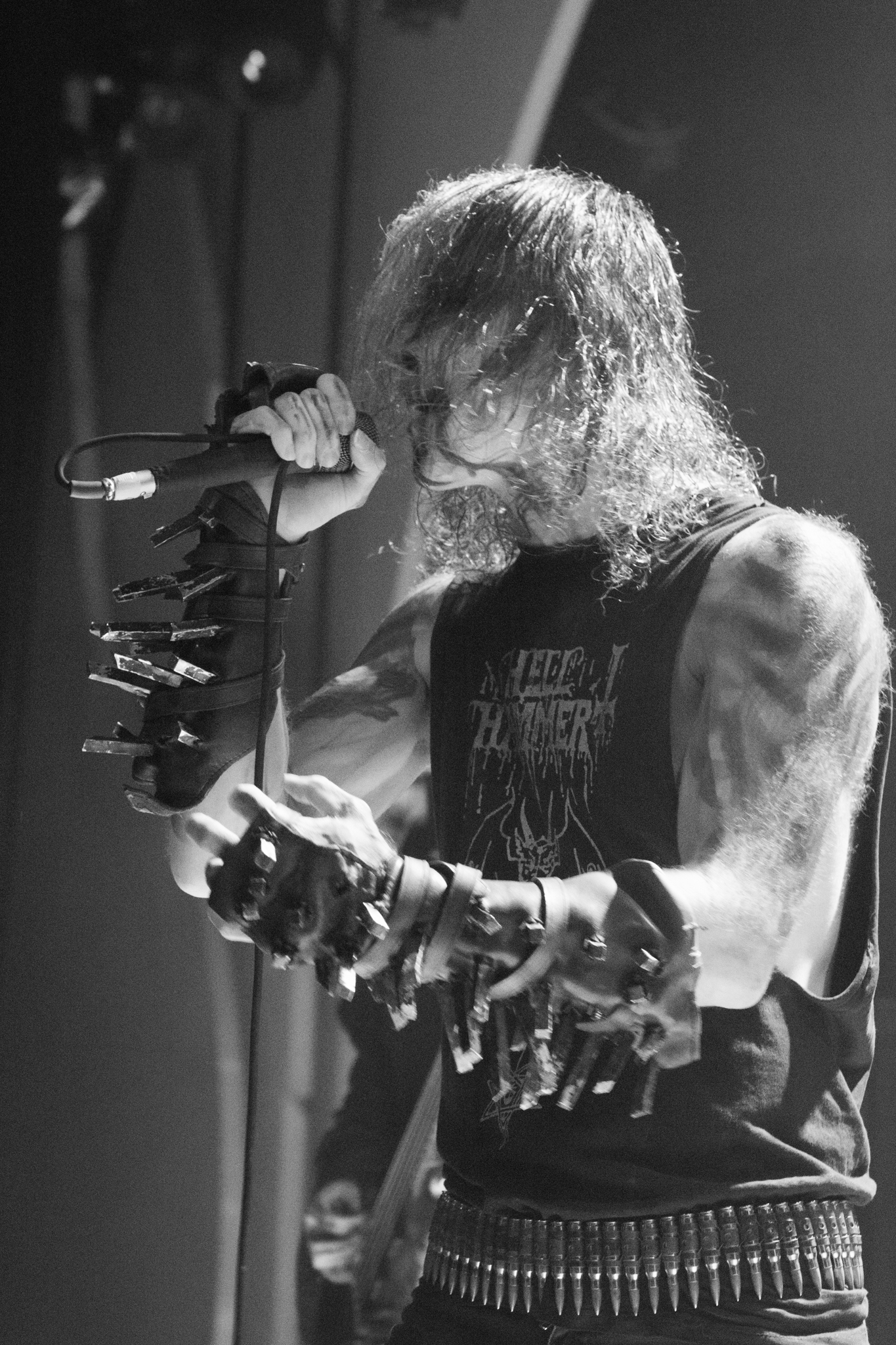 1349 performing at 70.000 tons of metal, january 2015